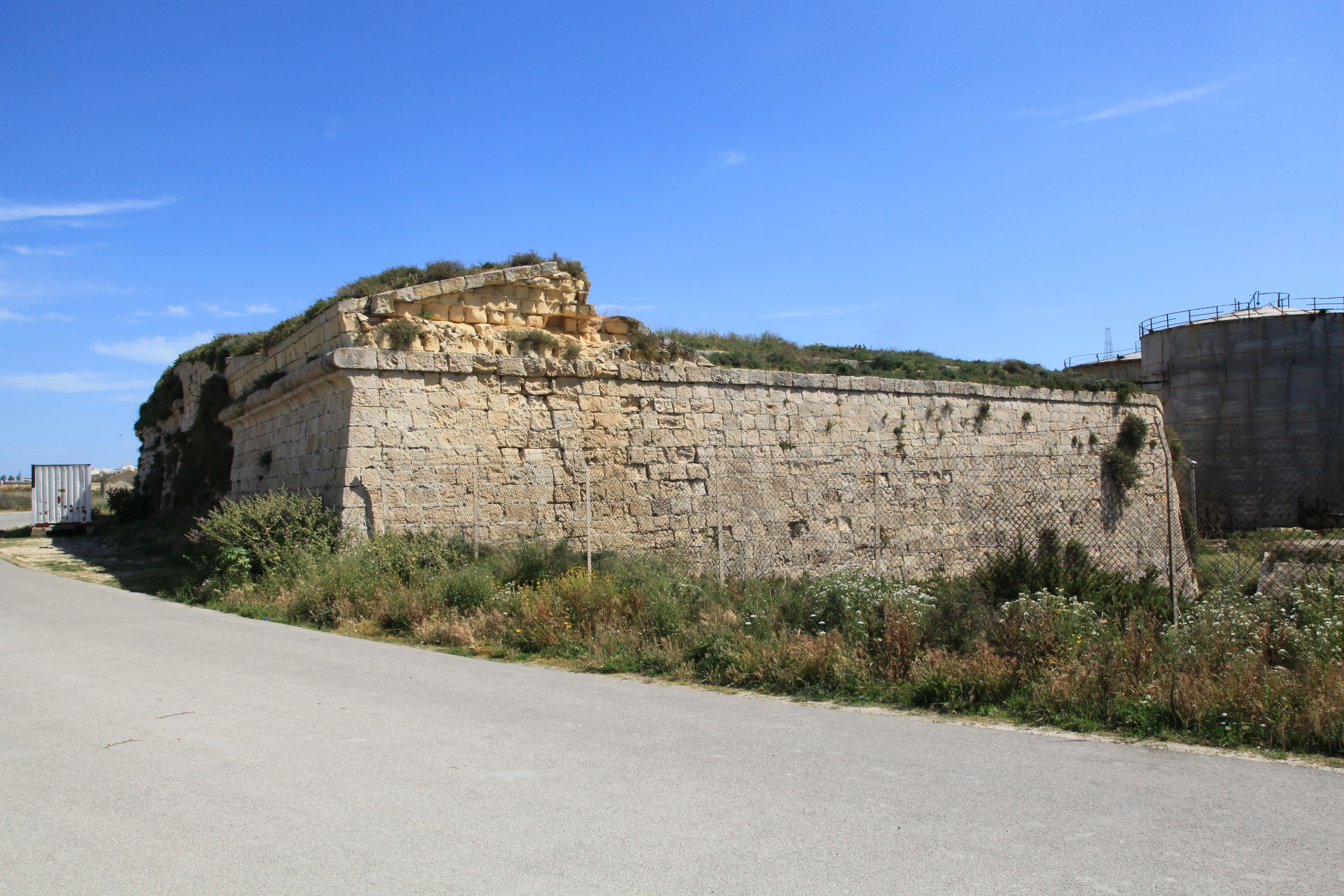 Fort Ricasoli at Triq Santu Rokku in Kalkara, Malta